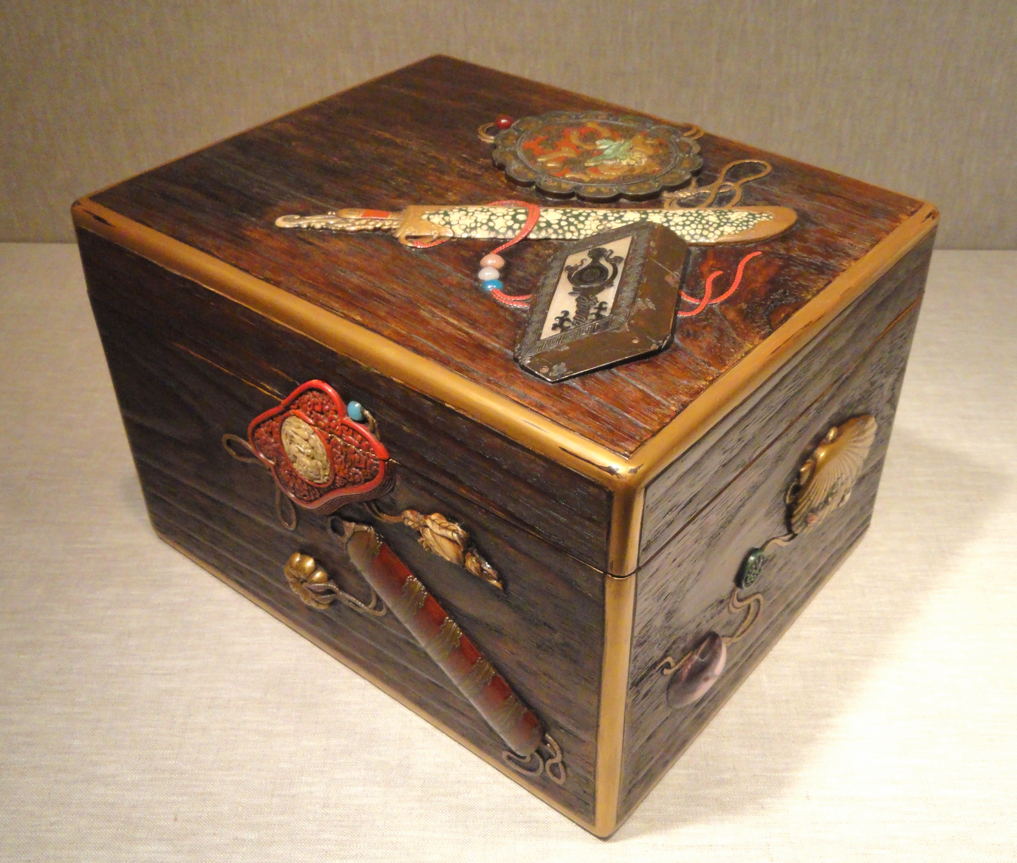 Exhibit in the Art Institute of Chicago, Chicago, Illinois, USA. This artwork is in the public domain because the artist died more than 70 years ago.